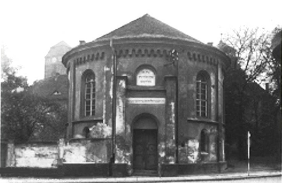 Synagogue of Sagan (now Żagań), built in 1857 from a bastion, and destroyed by the nazis during Kristal Nacht (9 to 10 nov 1938)